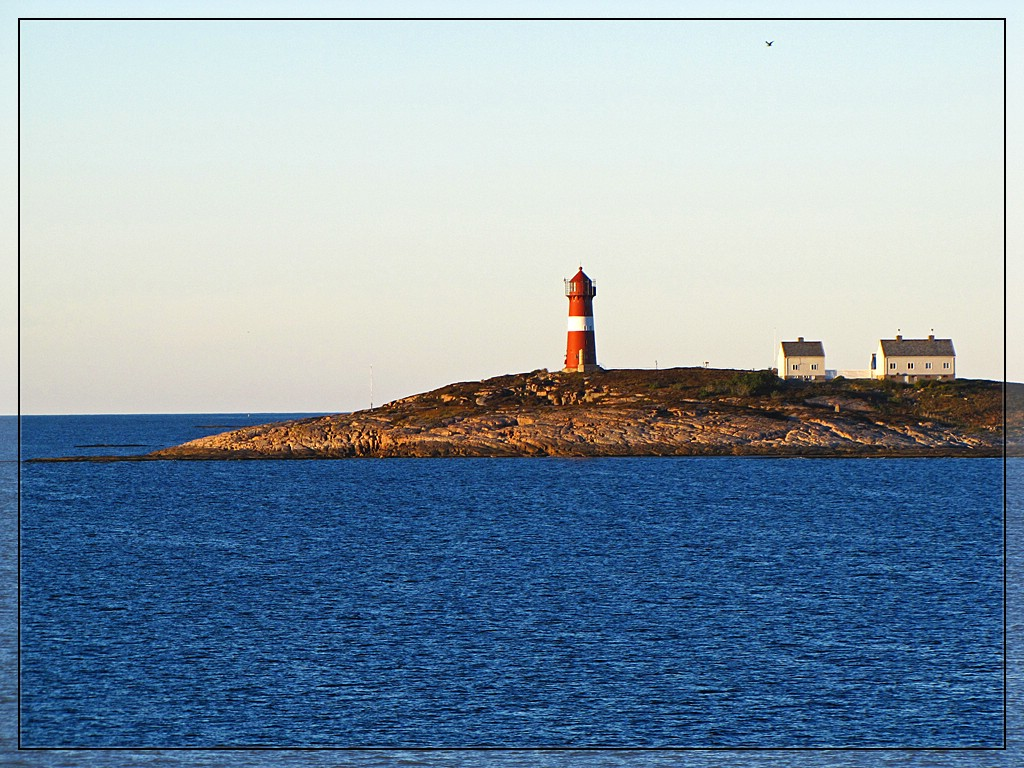 Buholmrasa lighthouse - Buholmråsa_fyr, Sør-Trøndelag, Norway, build in 1917